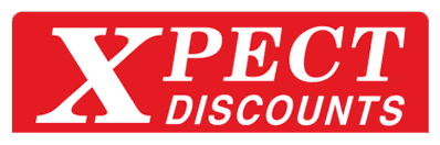 Logo for "Xpect Discounts" owned by parent company "Marc Glassman Inc."